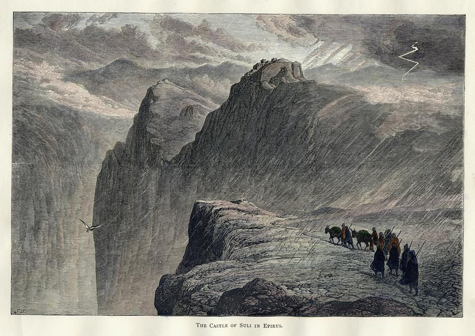 The castle of Suli in Epirus